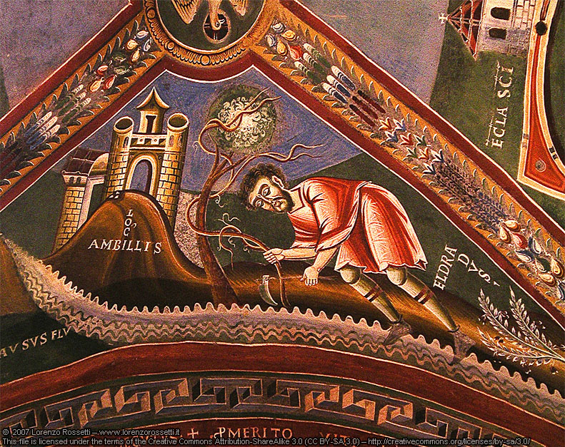 Saint Eldradus, painting from the abbey of Novalesa, Italy (11th century)